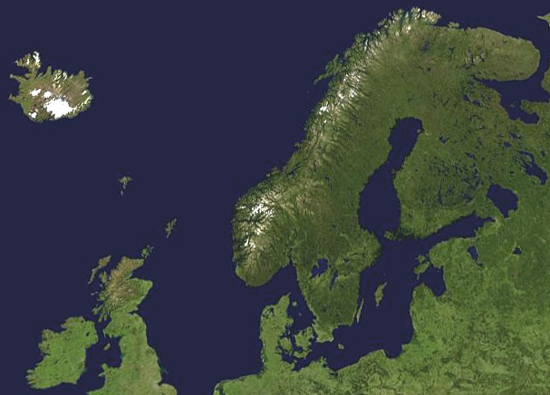 A composed satellite photograph of Northern Europe in orthographic projection. This is NASA "Blue Marble" image applied as a texture on a sphere using Art of Illusion program. In the original image the observer is centered at (50° N, 20° E), at Moon distance above the Earth. The cropped image has been rotated -7 degrees to reflect the center of the cropped frame being at 9° E.